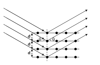 Schematic diagram for Bragg diffraction of X-rays in a solid state regular crystal, the black balls representing atoms of the crystal. Only X-rays impinging from the left that on the right have experienced a travel delay of 1, 2 or any whole number of wave lengths, will coherently come together and reinforce each other. The condition of this constructive interference imposes the Bragg relation 2 d sin ⁡ θ = n λ {\displaystyle 2d\sin \theta =n\lambda \,} Refer to Bragg's law.